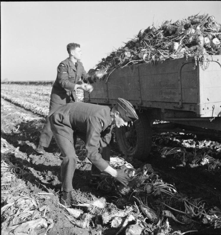 Producing Your Sugar- the Growing and Processing of Sugar Beet, Britain, 1942 Two Canadians who are serving in the RAF help to collect the sugar beet harvest by hand and load it into a waiting truck. According to the original caption: "They are sons of farmers away in Canada and are particularly interested in our agricultural methods".